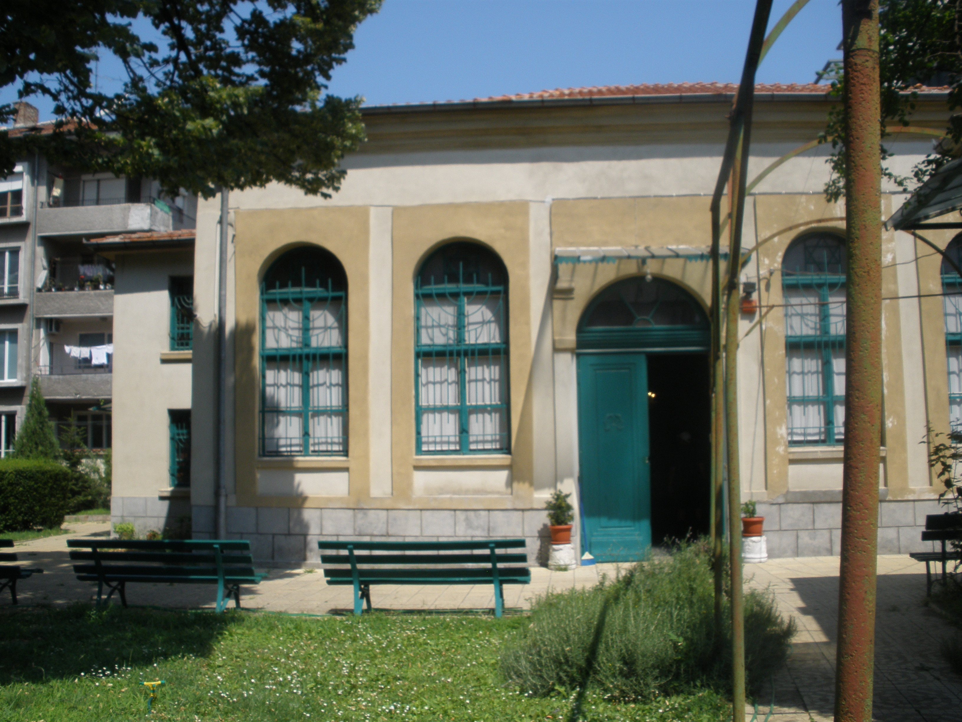 The Synagogue in Plovdiv. Credit: Courtesy of Yossi Nevo .